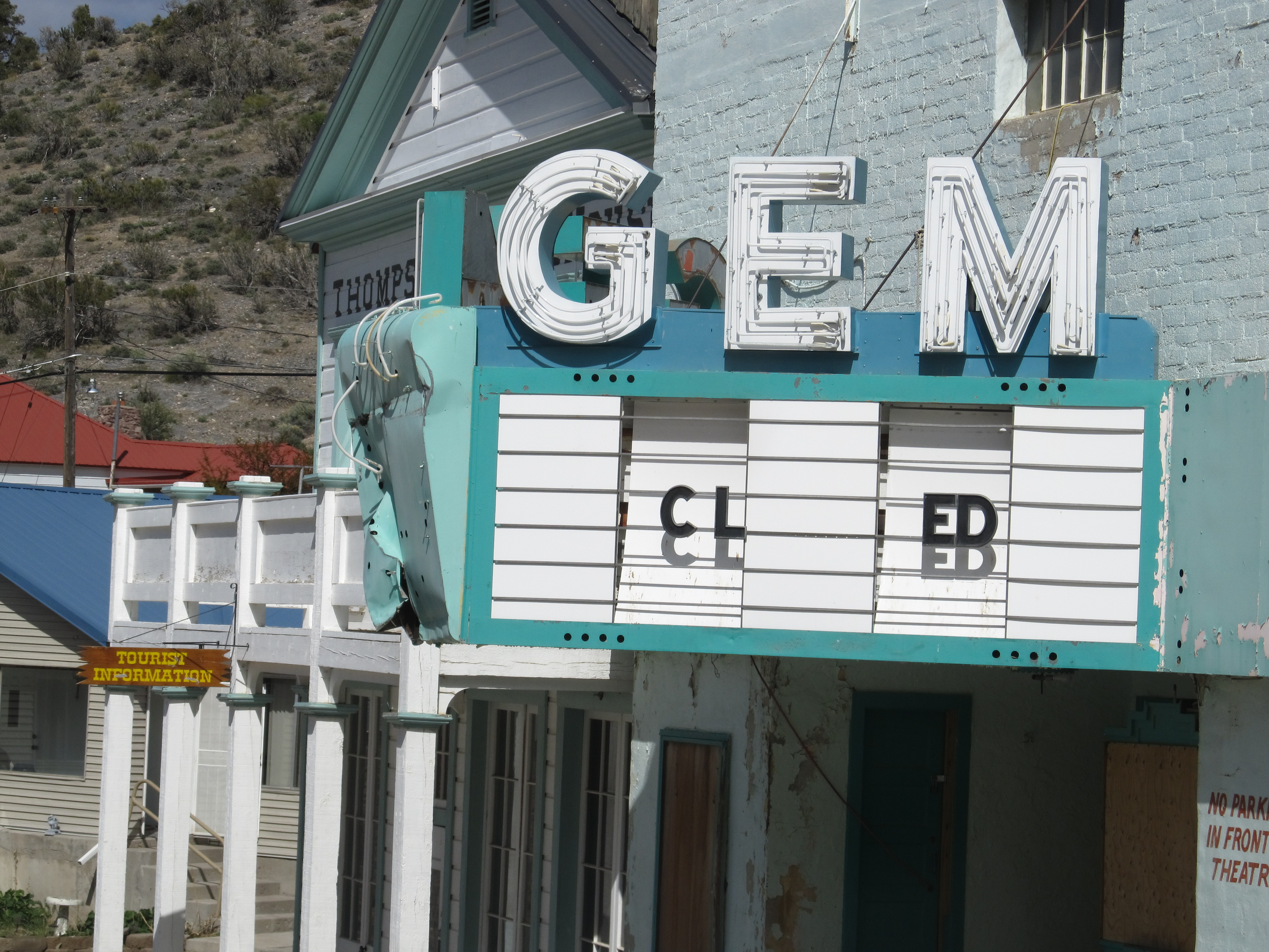 Pioche is an unincorporated community and census-designated place in Lincoln County, Nevada, United States, about 180 miles (290 km) northeast of Las Vegas. Its elevation is 6,060 feet (1,850 m) above sea level. Pioche is the county seat of Lincoln County. It is named after François Louis Alfred Pioche, a San Francisco financier. The town's population was 1,002 at the 2010 census. The first European-American settlement of the area occurred in 1864 with the opening of a silver mine. The settlers abandoned the area when indigenous communities effectively mounted resistance to colonization. Recolonization launched in 1868, and François Pioche bought the town in 1869. By the early 1870s, it had grown to become one of the most important silver-mining towns in Nevada. The town had a reputation for being one of the roughest towns in the Old West. Local lore says 72 men were killed in gunfights before the first natural death occurred in the camp. This legend is immortalized by the creation of Boot Hill, now a landmark in the city. Pioche is known for its "Million Dollar Courthouse", built in 1872. The original cost of $88,000 far exceeded initial estimates and was financed, and refinanced with bonds totaling nearly $1 million. An aerial tramway carried buckets of ore from the mines to the Godbe Mill. The tramway ran during the 1920s and 1930s and was used for the transportation of silver and nickel ore. Although the tramway is abandoned, its cables still stretch over parts of the town, and its ore buckets still hang to this day. The Gem Theater (also known as Brown's Hall or the Opera House), Pioche, Nevada.